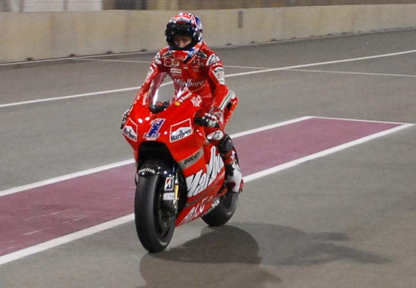 Casey Stoner